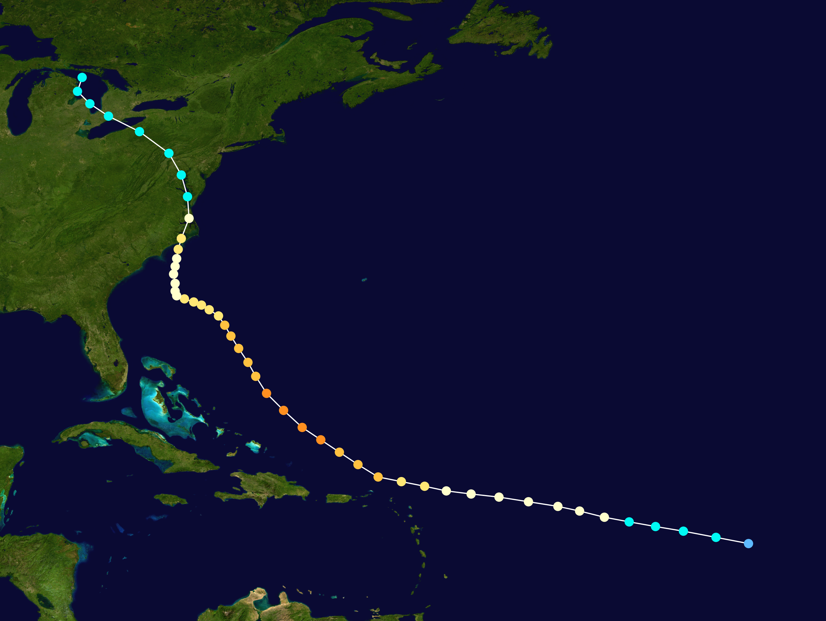 Track map of Hurricane Connie of the 1955 Atlantic hurricane season. The points show the location of the storm at 6-hour intervals. The colour represents the storm's maximum sustained wind speeds as classified in the Saffir–Simpson hurricane wind scale (see below), and the shape of the data points represent the nature of the storm, according to the legend below. Saffir–Simpson hurricane wind scale Tropical depression≤38 mph≤62 km/h Category 3111–129 mph178–208 km/h Tropical storm39–73 mph63–118 km/h Category 4130–156 mph209–251 km/h Category 174–95 mph119–153 km/h Category 5≥157 mph≥252 km/h Category 296–110 mph154–177 km/h Unknown Storm typeTropical cycloneSubtropical cycloneExtratropical cyclone / Remnant low / Tropical disturbance